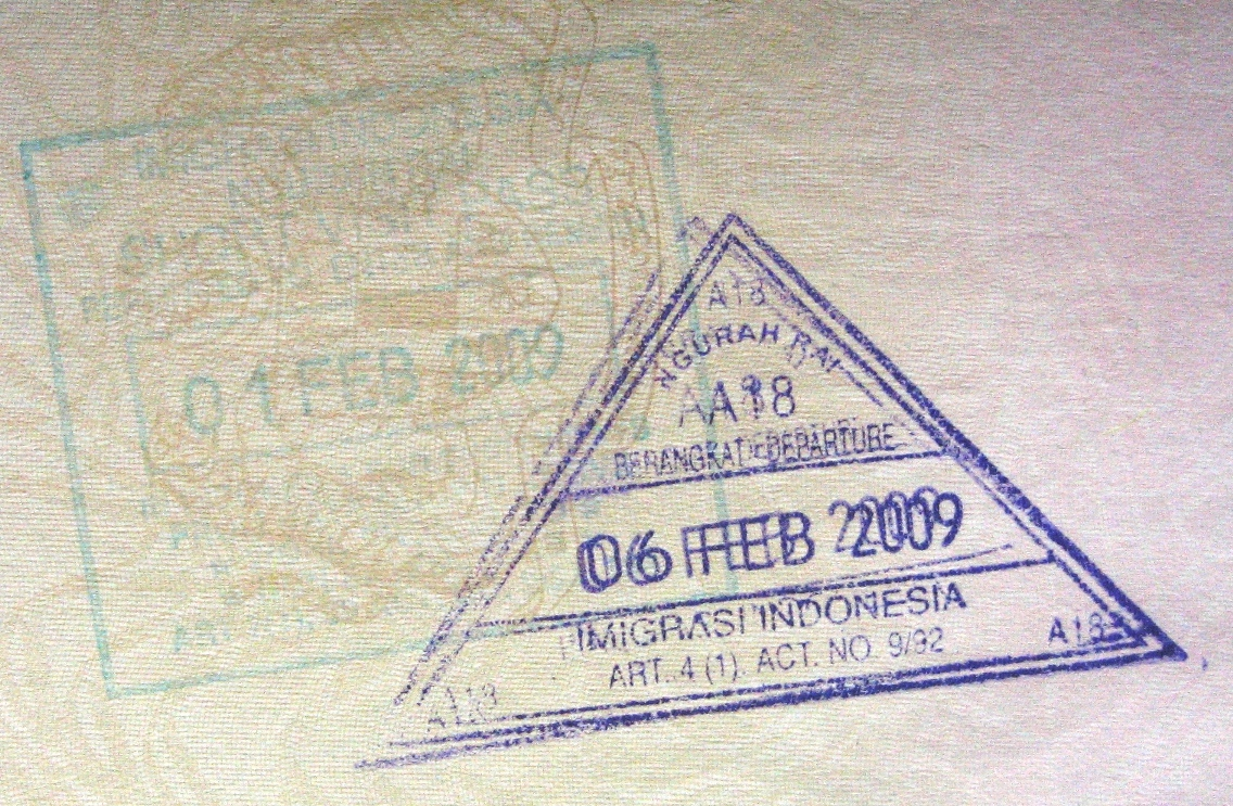 Passport stamp Ngurah Rai Airport, Bali